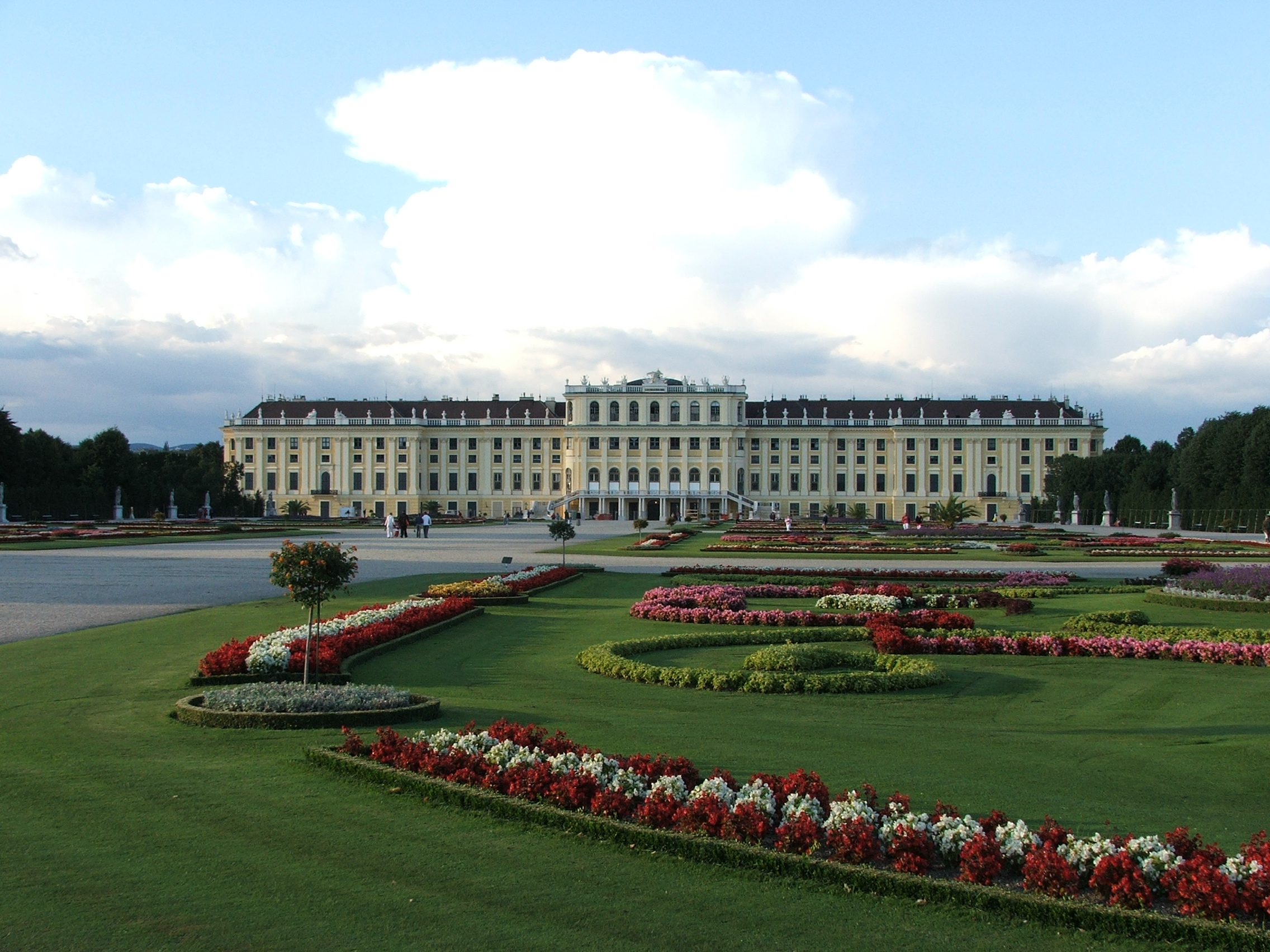 Austria, Vienna, Schönbrunn Palace